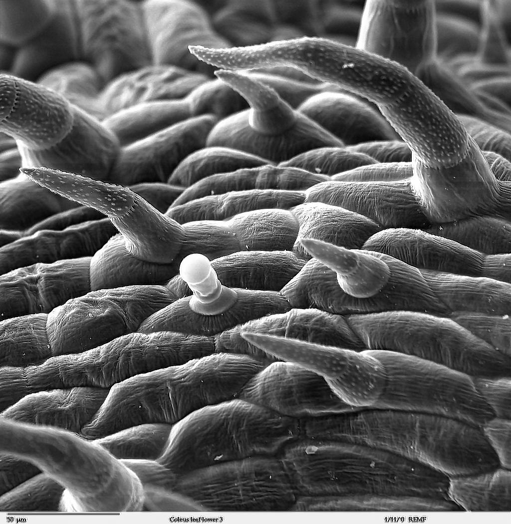 From the Swallowtail Garden Seeds collection of botanical images and illustrations. This image is in the public domain. Click arrow to download, and use as you choose.